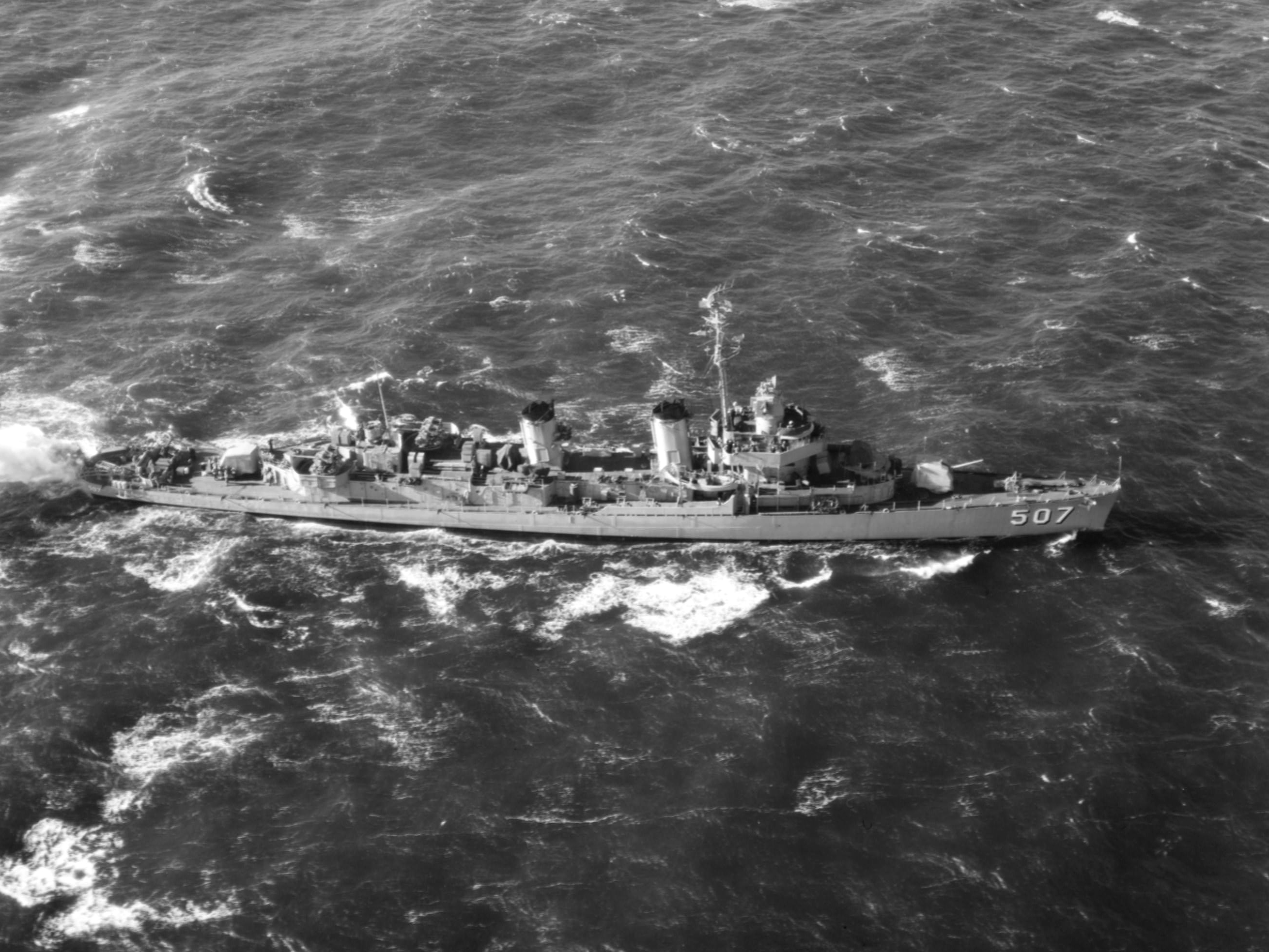 The U.S. Navy destroyer USS Conway (DDE-507) underway off the Boston Lightship, Massachusetts (USA), on 6 December 1950.